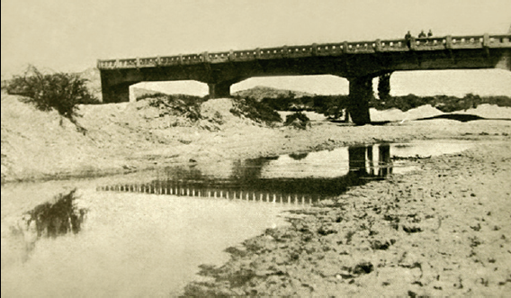 Old bridge in Machigue